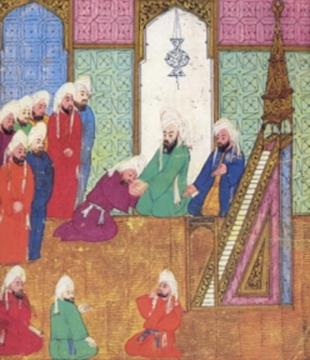 Persian Miniature: Saqifah vowing to Abu Bakr. On the right Umar.